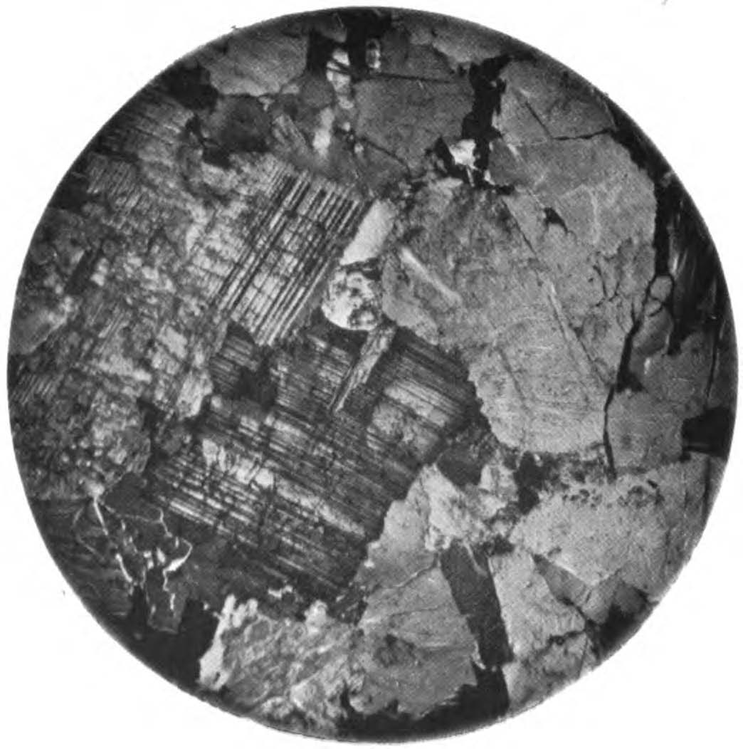 Plate IX, Figure 2, of 1898 publication called Maryland Geological Survey Volume Two, with caption "Photomicrograph of Granite, Ellicott City. (Magnified Ten Diameters)." Field represents approximately 0.85 cm. Under crossed polarized light.